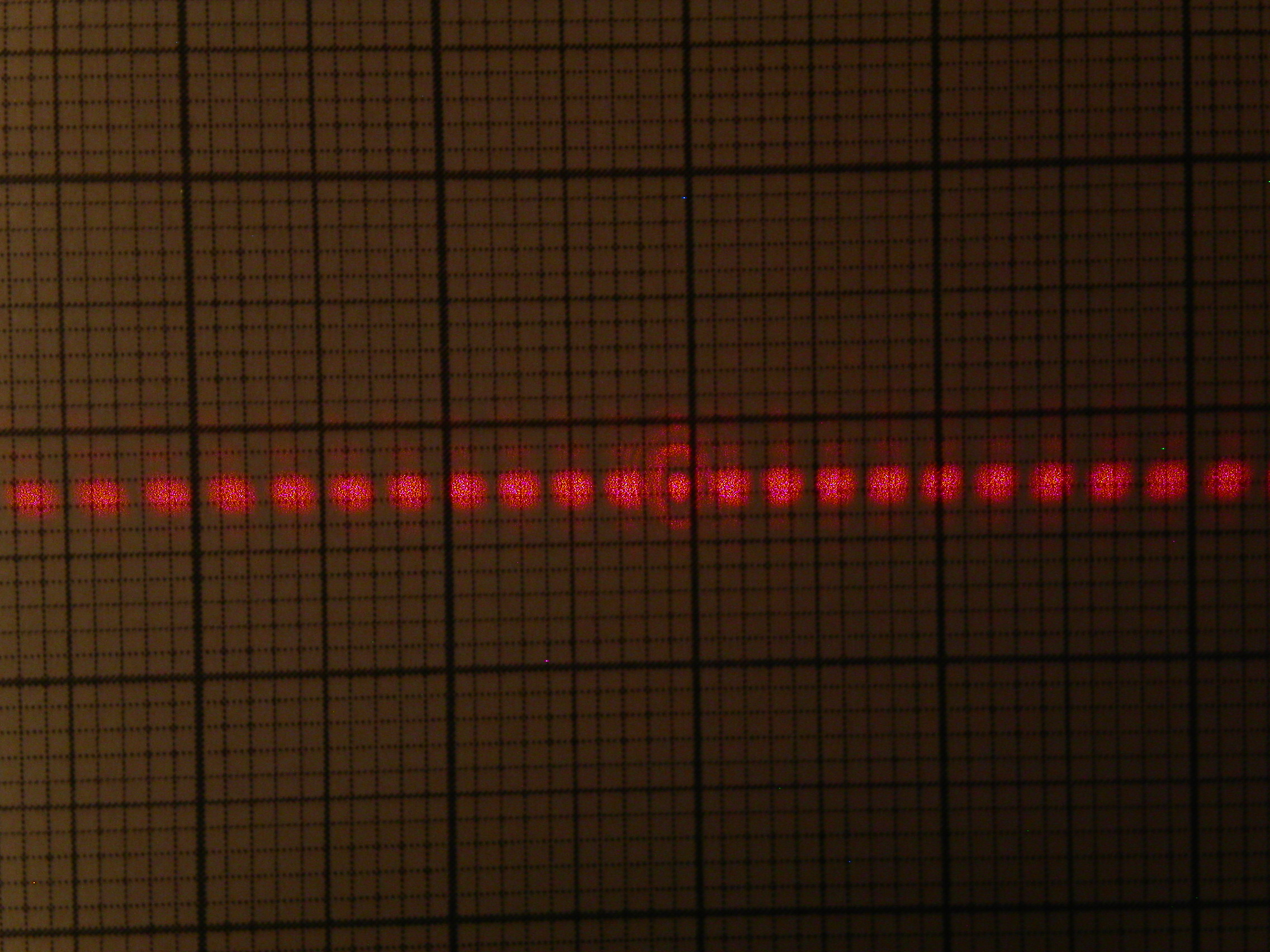 Picture of an interference pattern of subwavelength width double slits